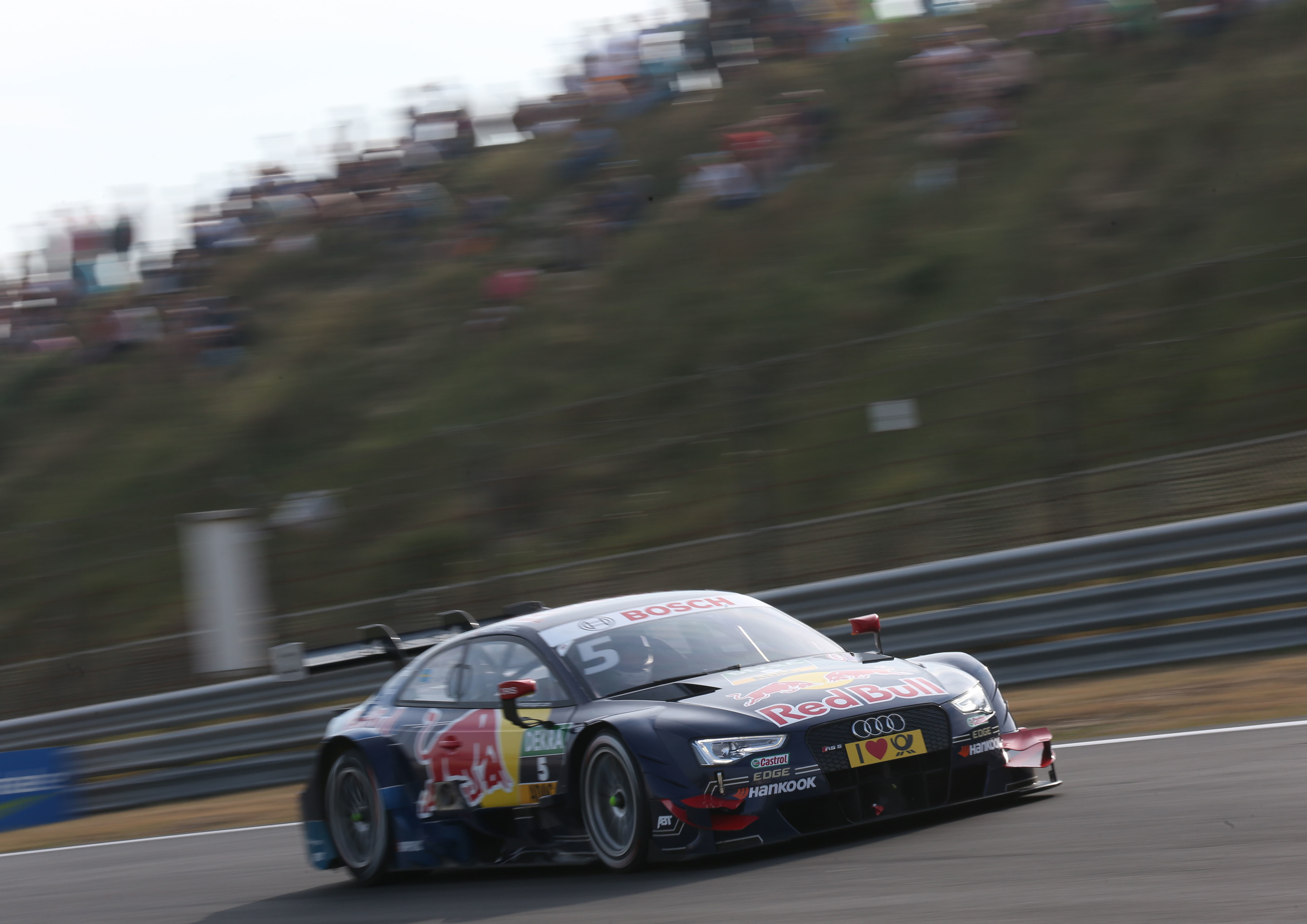 The 2015 Audi RS5 DTM ABT Sportsline of Mattias Ekström.